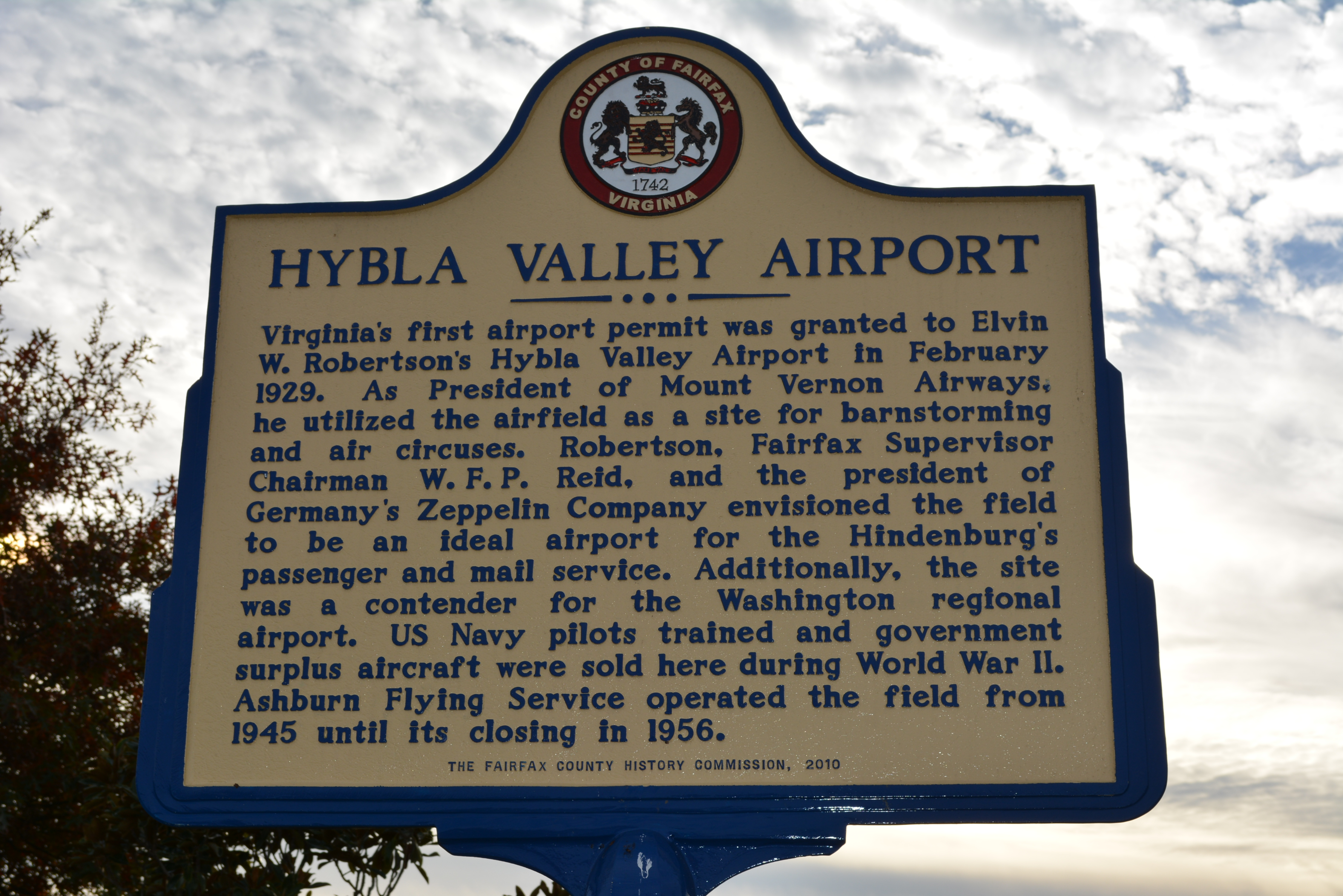 Hybla Valley airport roadsign